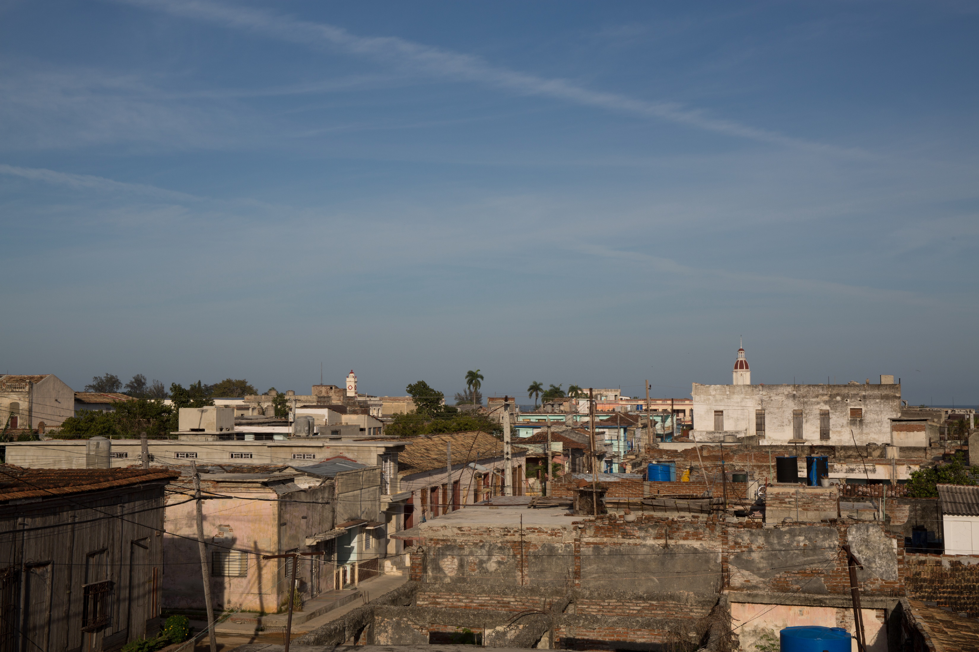 Manzanillo, Cuba Manzanillo, province of Granma, view of the city